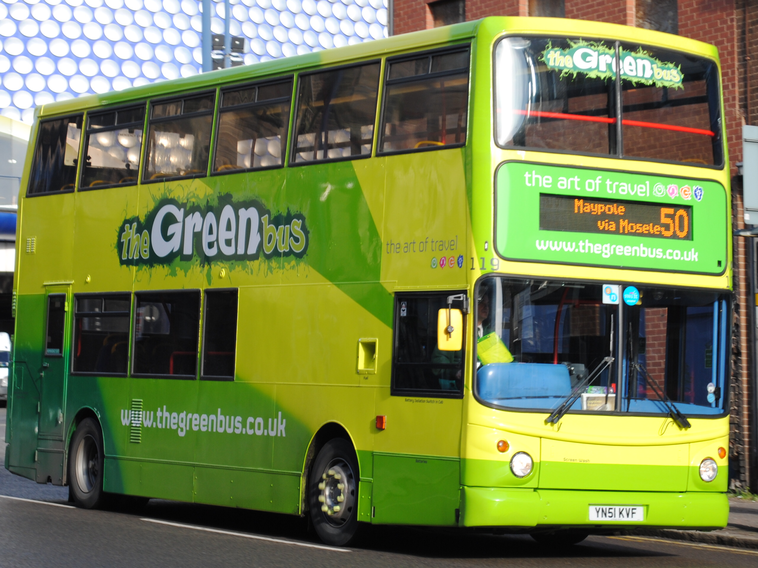 Alexander Dennis Trident ALX400. new to Connex London